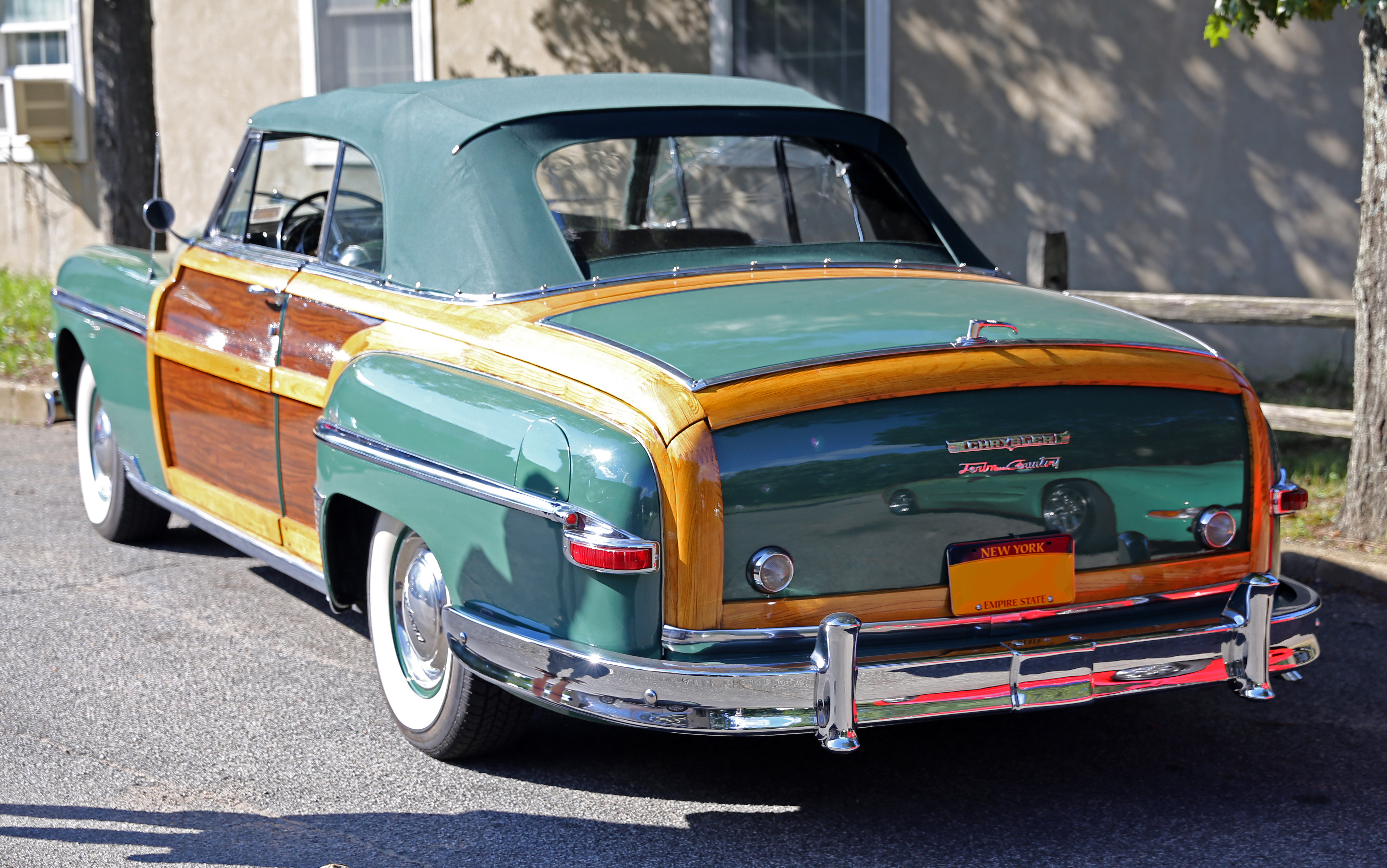 Rear view of a 1949 Chrysler New Yorker Town & Country Convertible Coupé (C46N), in East Hampton, NY. Only 993 were built of this, the most expensive 1949 Chrysler. The C46-series saw a shortened model year, its introduction having been delayed due to a strike in late 1948.